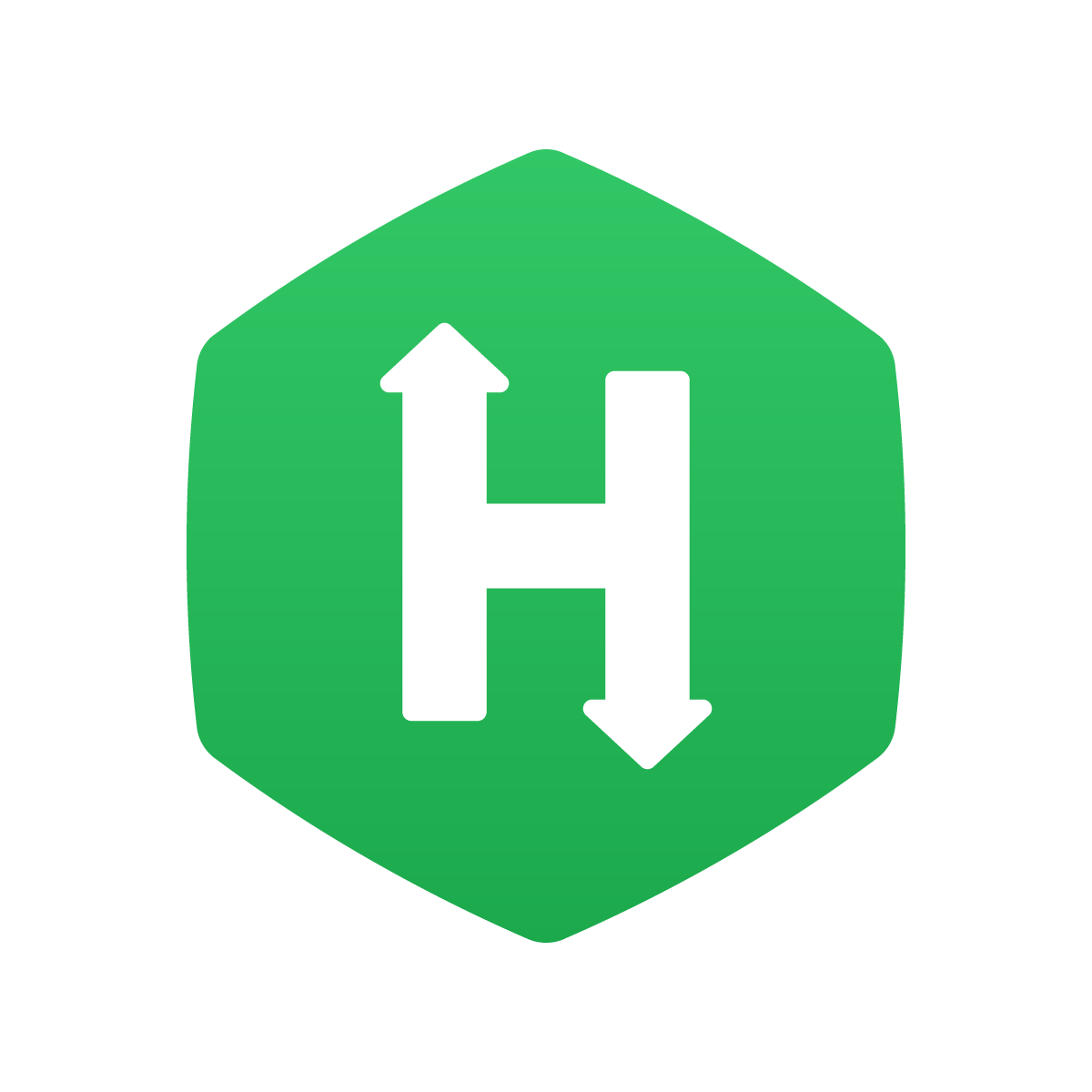 This is a HackerRank company logo.